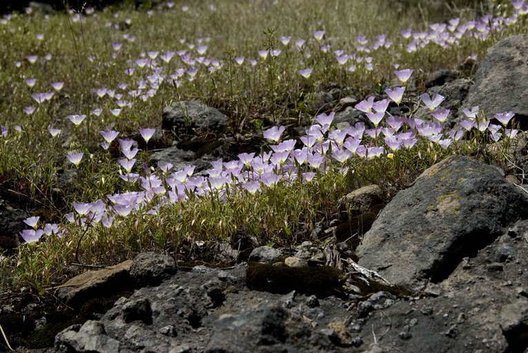 Clarkia arcuata on Gold Note Ridge (El Dorado County, California, US)